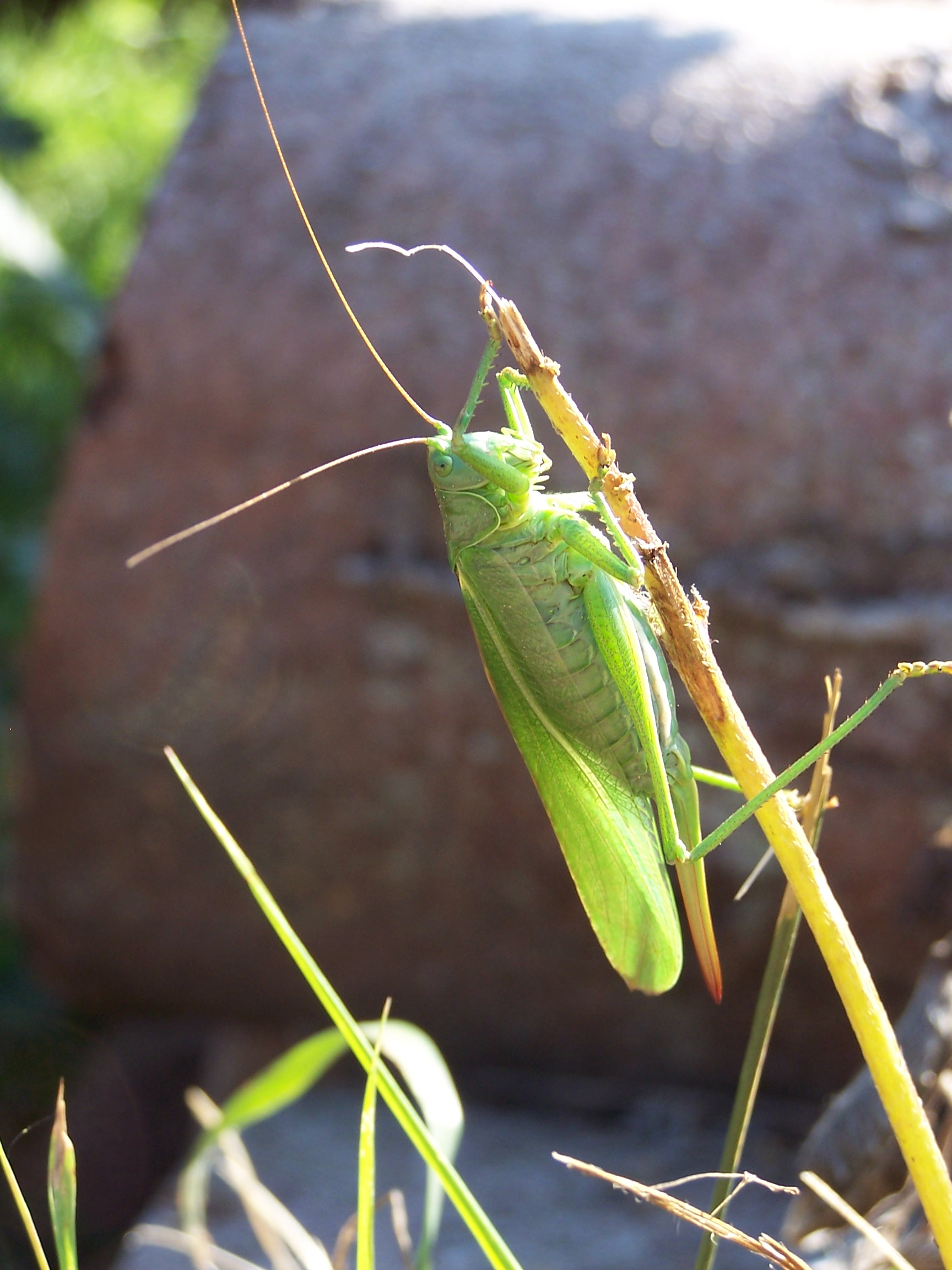 Tettigonia viridissima in Stora Lönnemåla, municipality of Ronneby, Sweden.